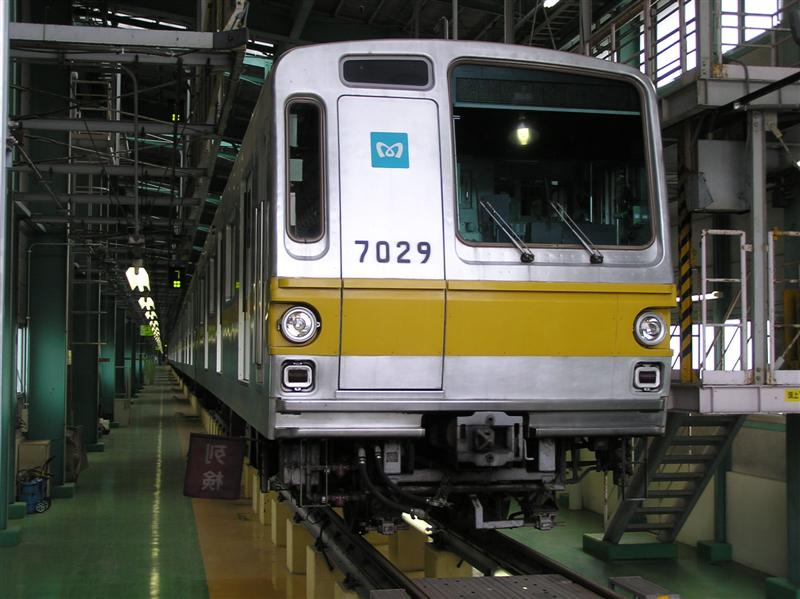 Tokyo Metro 7000 series EMU set 7029 inside Shinkiba Depot